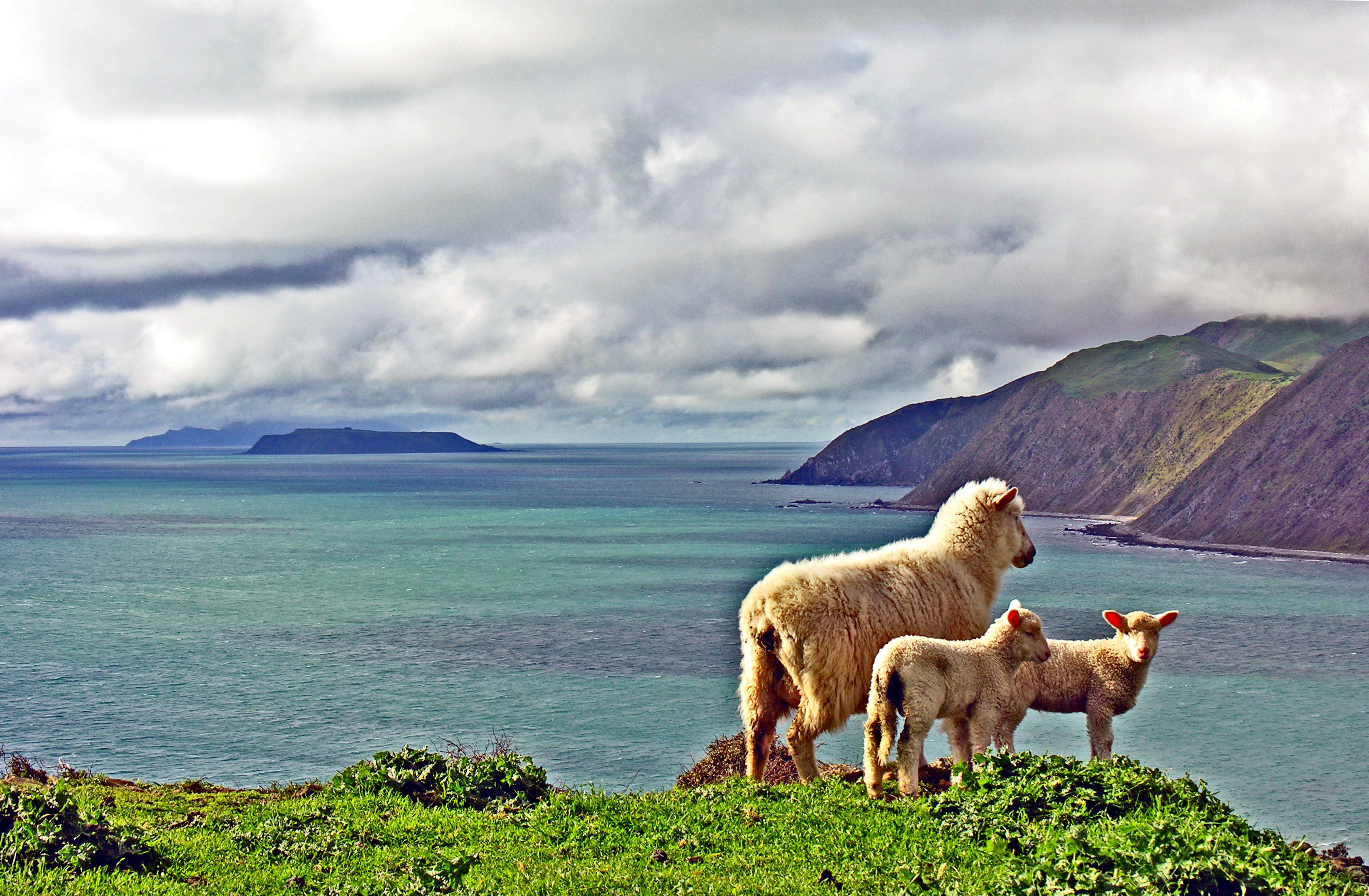 Modified by straightening, 12-09-06